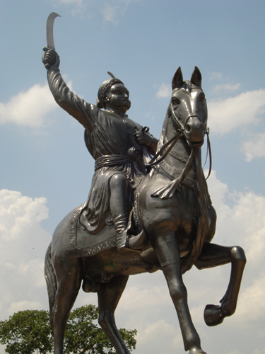 This is the statue of Maharaja Surajmal at Delhi.